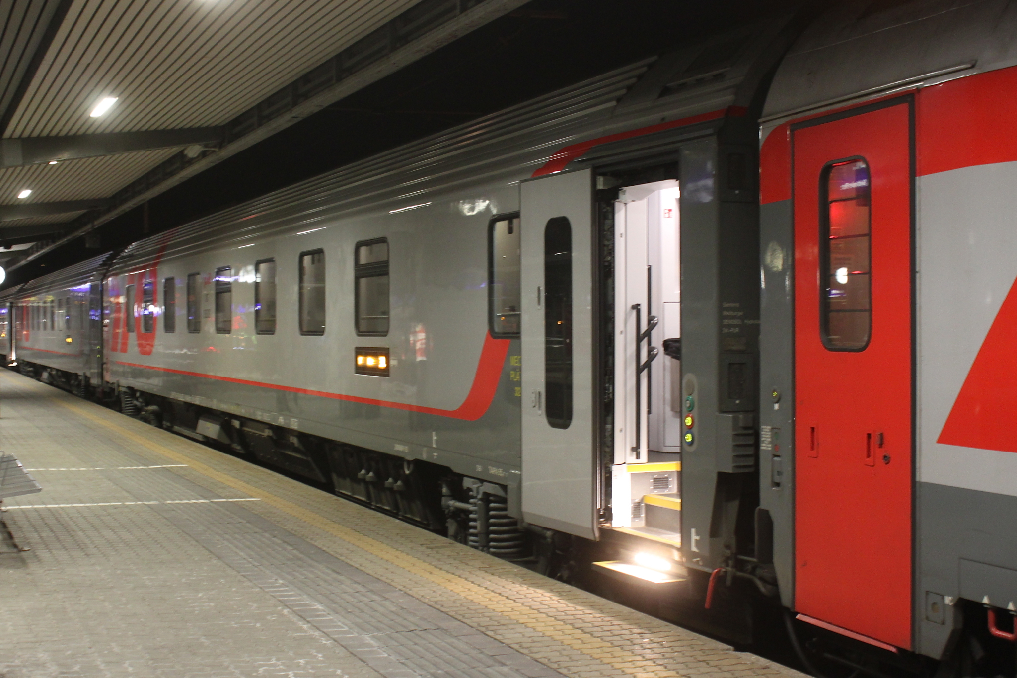 FPC WLABmz 62 85 78-90 078-7 CH-FPC in the consist of train 017БА from Moskva Belorusskaja to Nice Ville at Innsbruck Hbf.